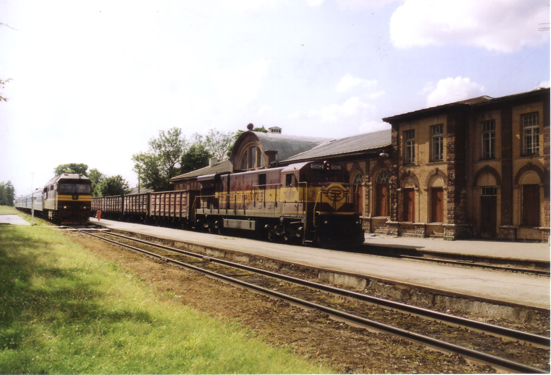 Tapa station, Estonia. With TEP70 heading passenger special and GE locomotive heading goods train.